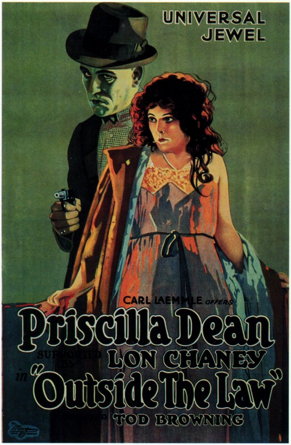 Lon Chaney & Priscilla Dean in Outside the Law - original poster